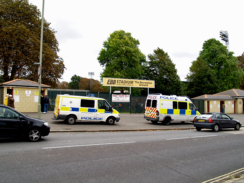 Main entrance to the EBB Stadium, home of Aldershot Town FC. Saturday 4th October 2008